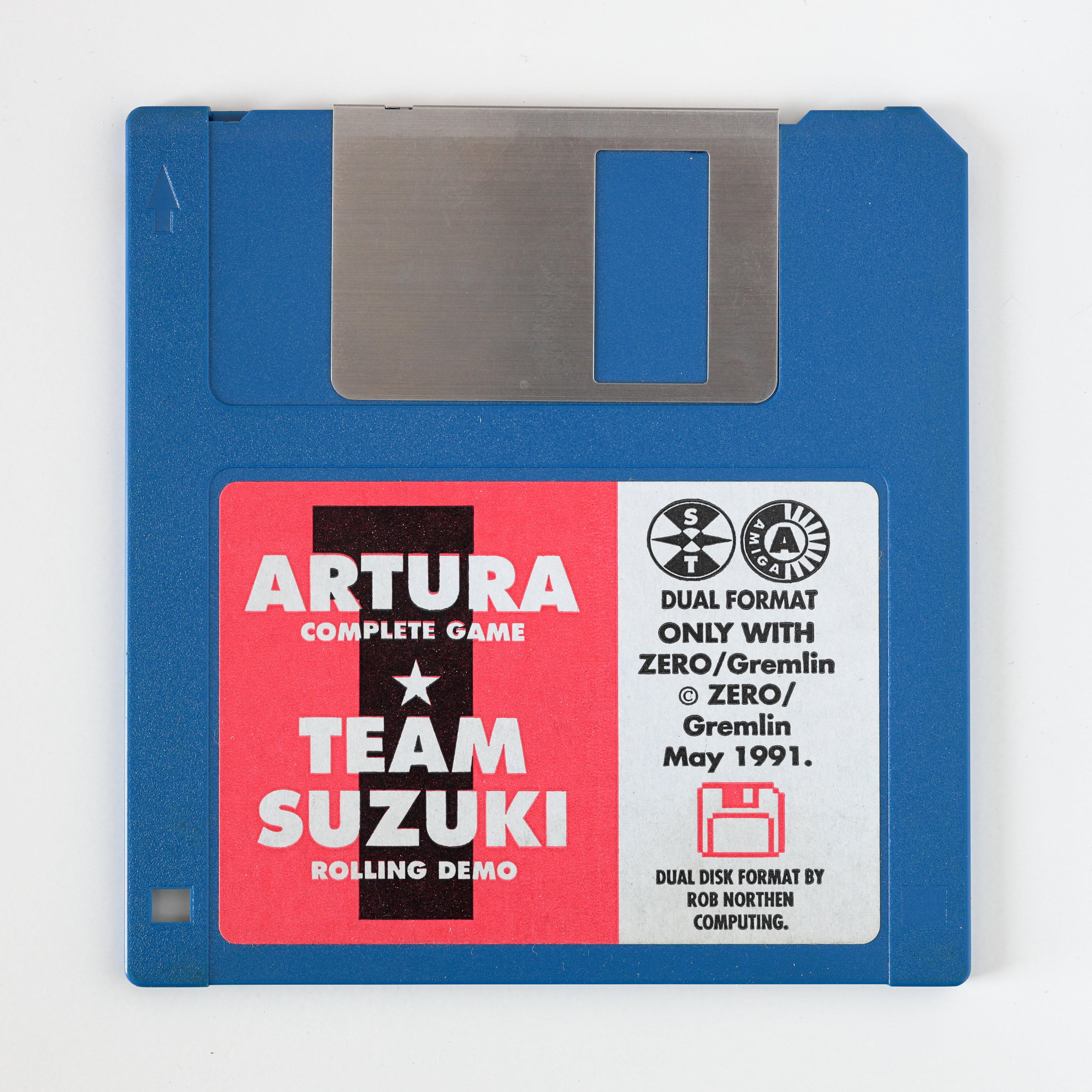 Dual format floppy diskette simultaneously formatted for both Atari ST and Commodore Amiga home computers. The diskette contains the full game of Artura, and a rolling demo of Team Suzuki, both by Gremlin Interactive. The diskette came with the May 1991 edition of video game magazine ZERO. The label says "Dual disk format by Rob Northern Computing".